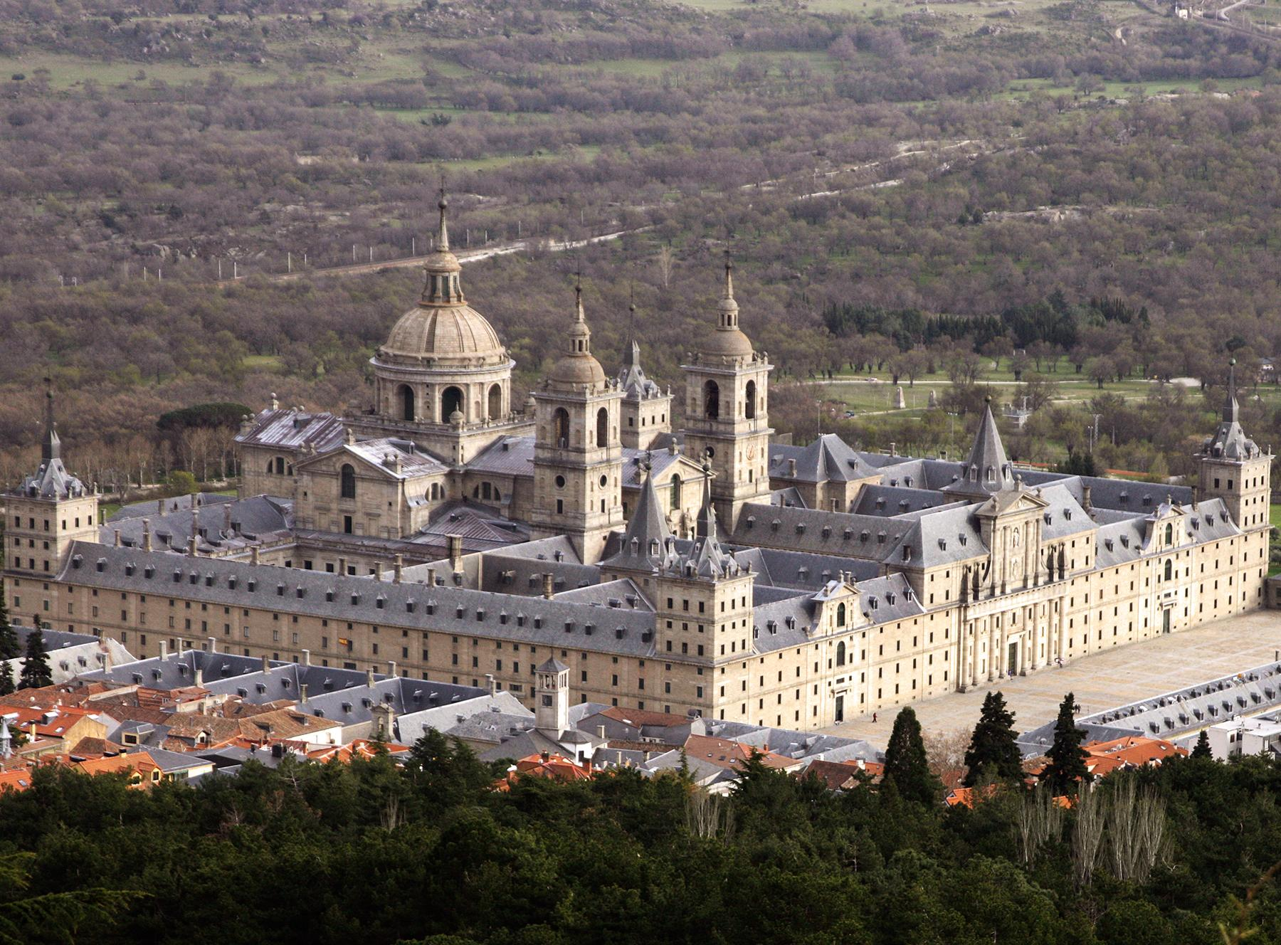 Monastery of San Lorenzo de El Escorial